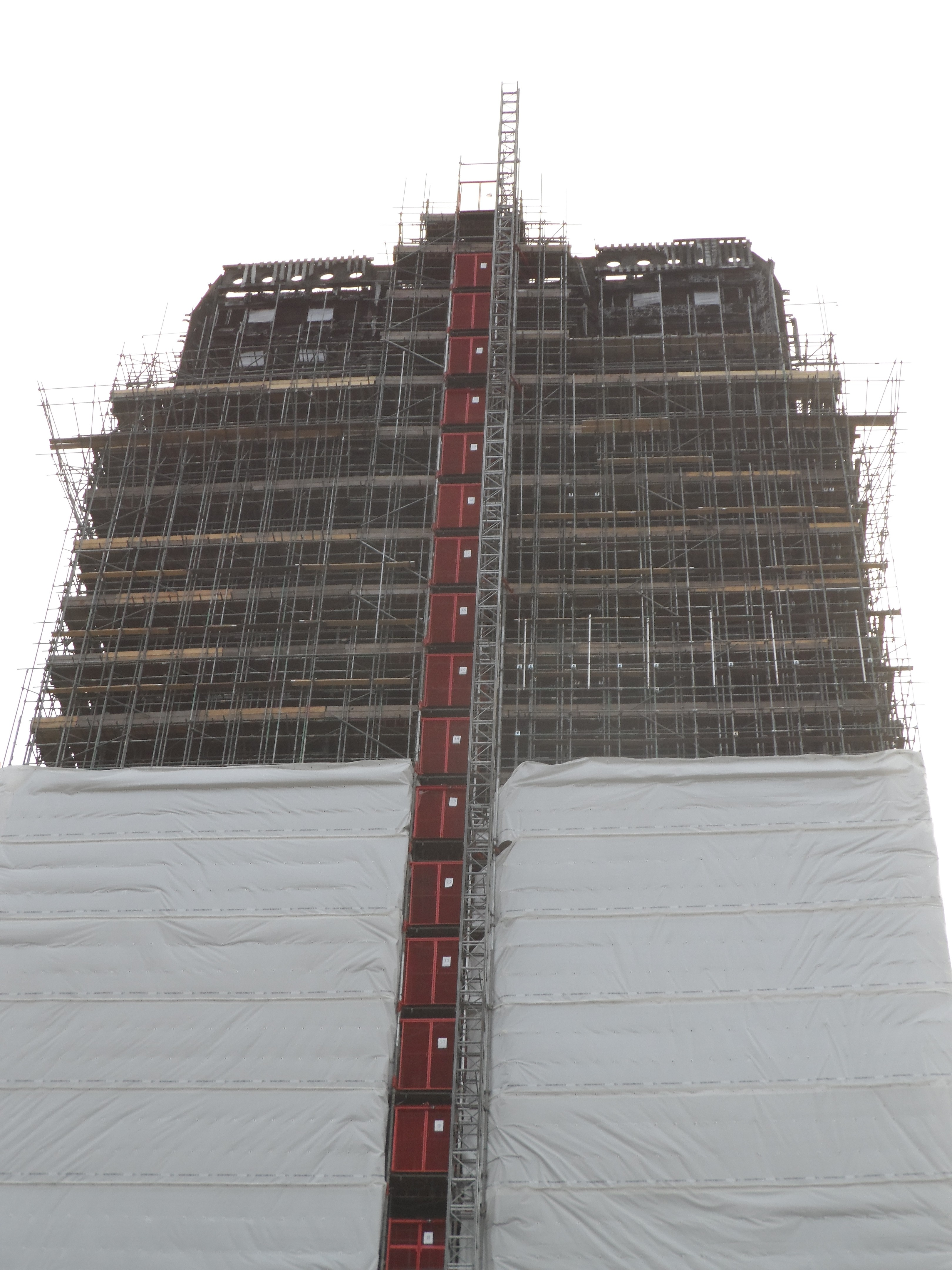 One of several views of Grenfell Tower, nearly 11 months after the fire, with scaffolding covering most of the building. This view, showing the upper floors of the east face of the tower, was photographed from outside the entrance to Kensington Leisure Centre next to the tower. Photographed on 9 May 2018.